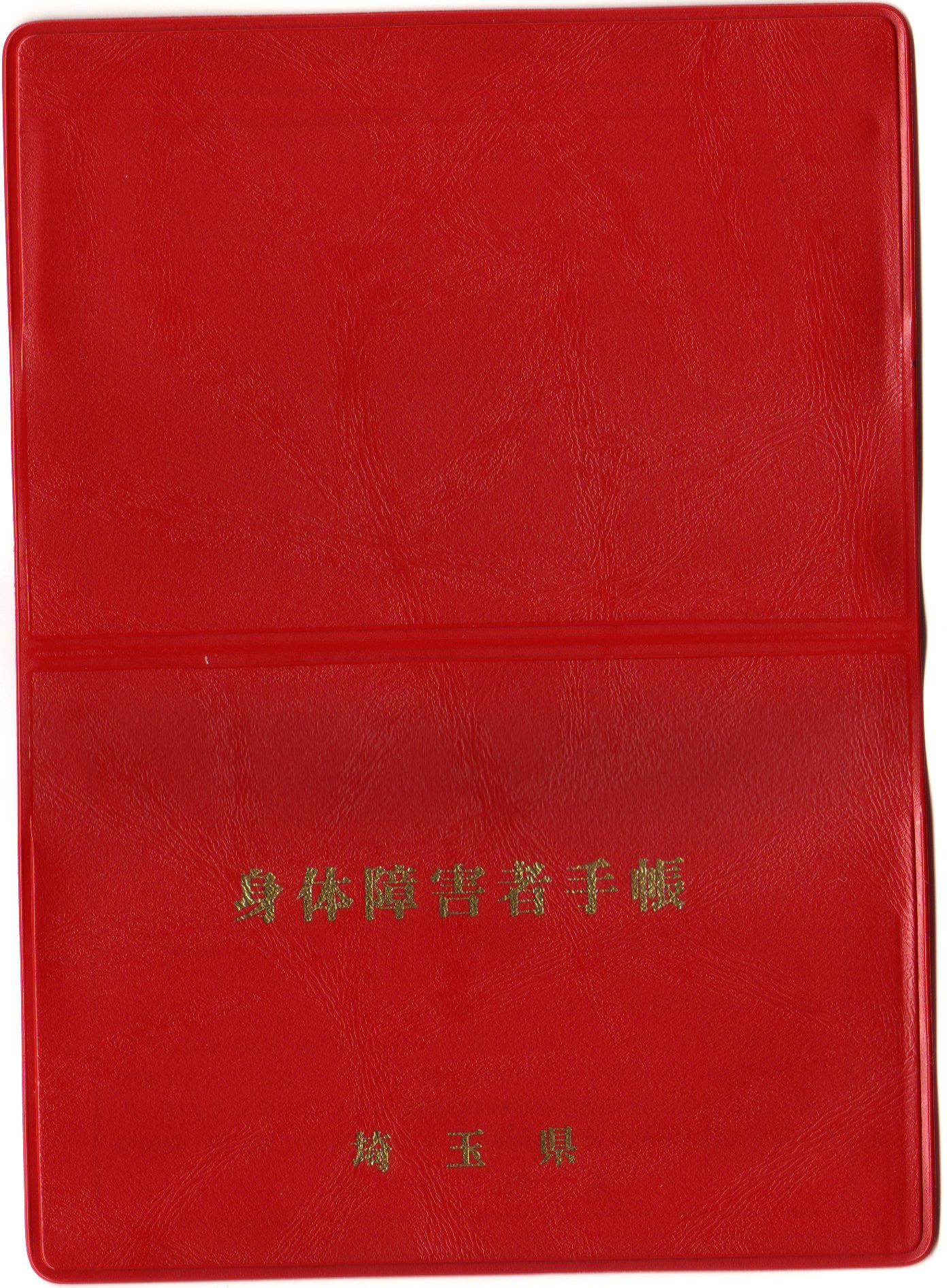 Outside cover of a Japanese identity document for a person with a physical disability